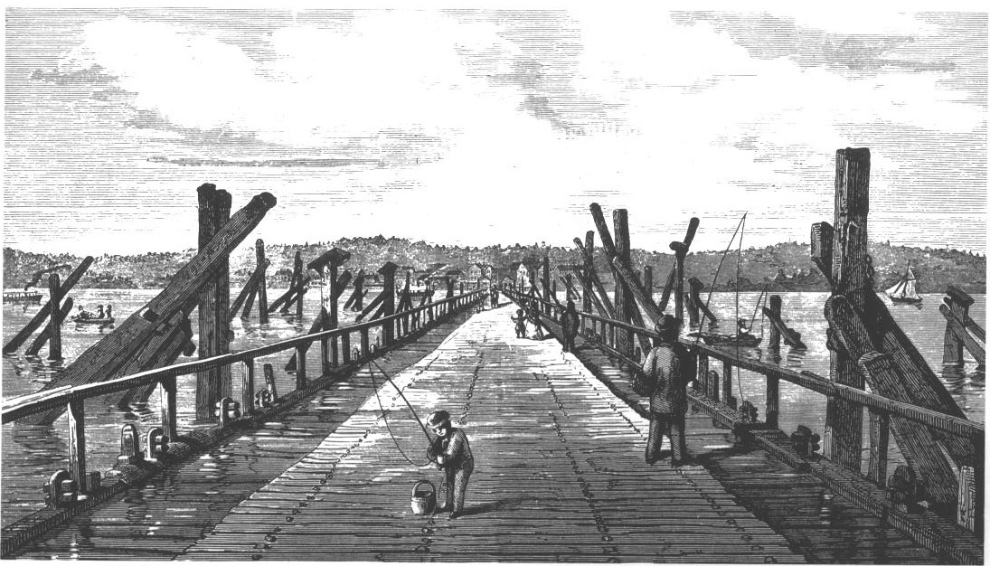 The first floating type bridge built between Lidingö and Stockholm, 1802-1803.